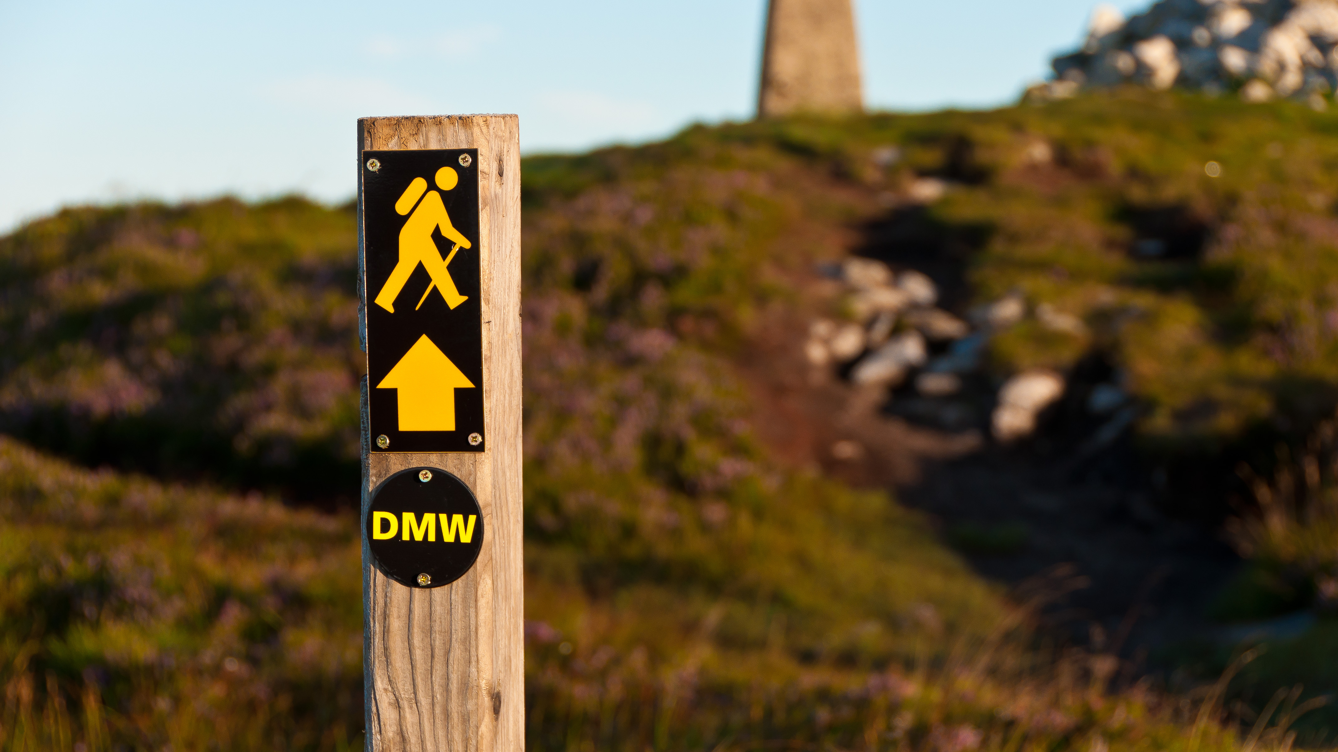 Waymarker for the Dublin Mountains Way near Fairy Castle, the summit of Two Rock Mountain, County Dublin, Ireland